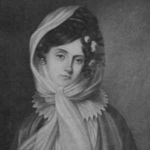 Polish composer Tekla Badarzewska-Baranowska, a little-recognized talent, famous for only one of her compositions.